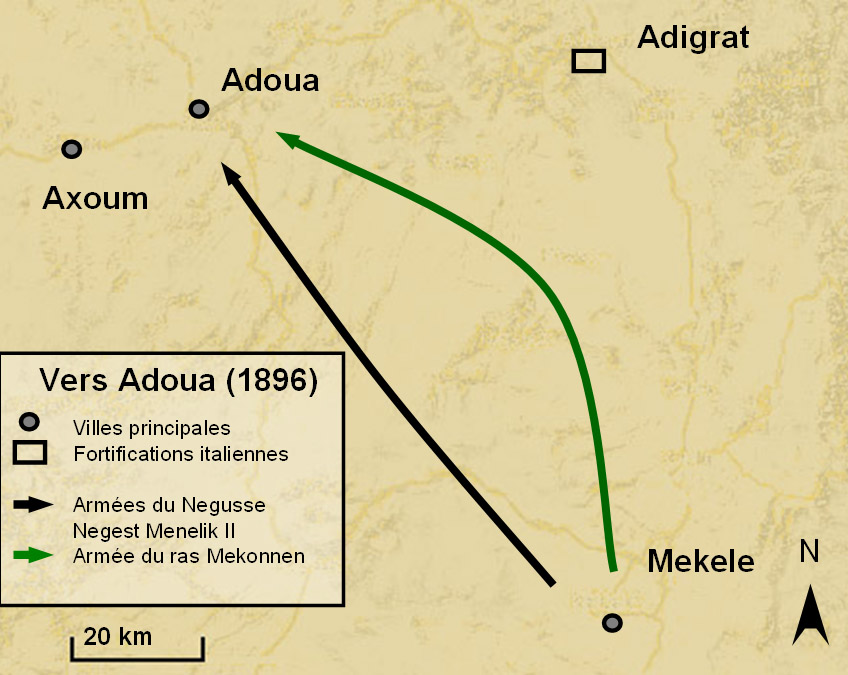 Ethiopian march from Meqelé to Adwa after the Ethiopian victory at Meqelé. Green arrow shows the march of Ras Mekonnen protecting the Imperial army in case Italian soldiers based in Adigrat planned an offensive.